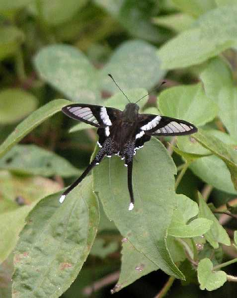 The White Dragontail, Lamproptera curius taken at Jairampur, Arunachal Pardesh, India.